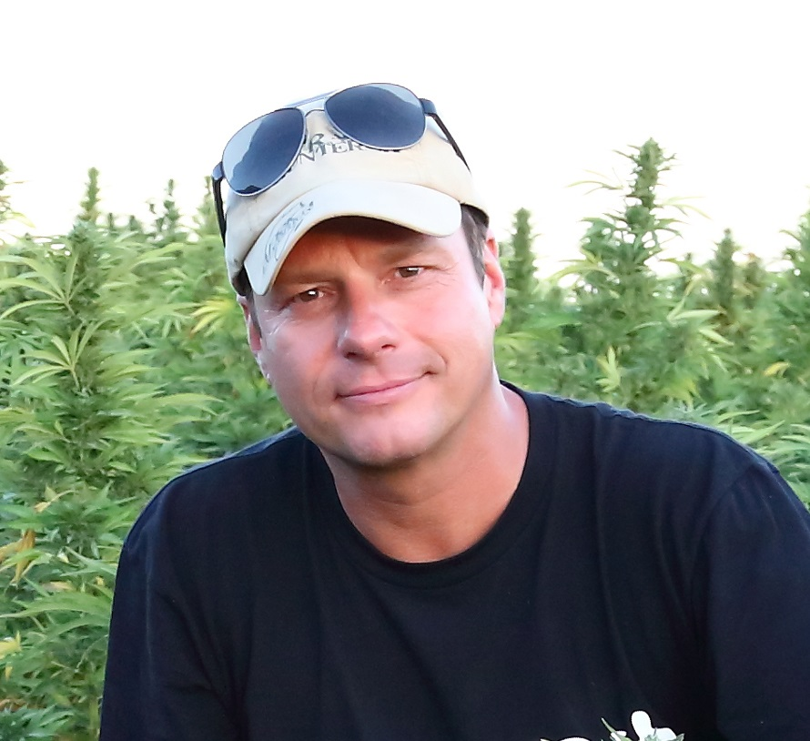 Photo taken of Arjan on expedition.